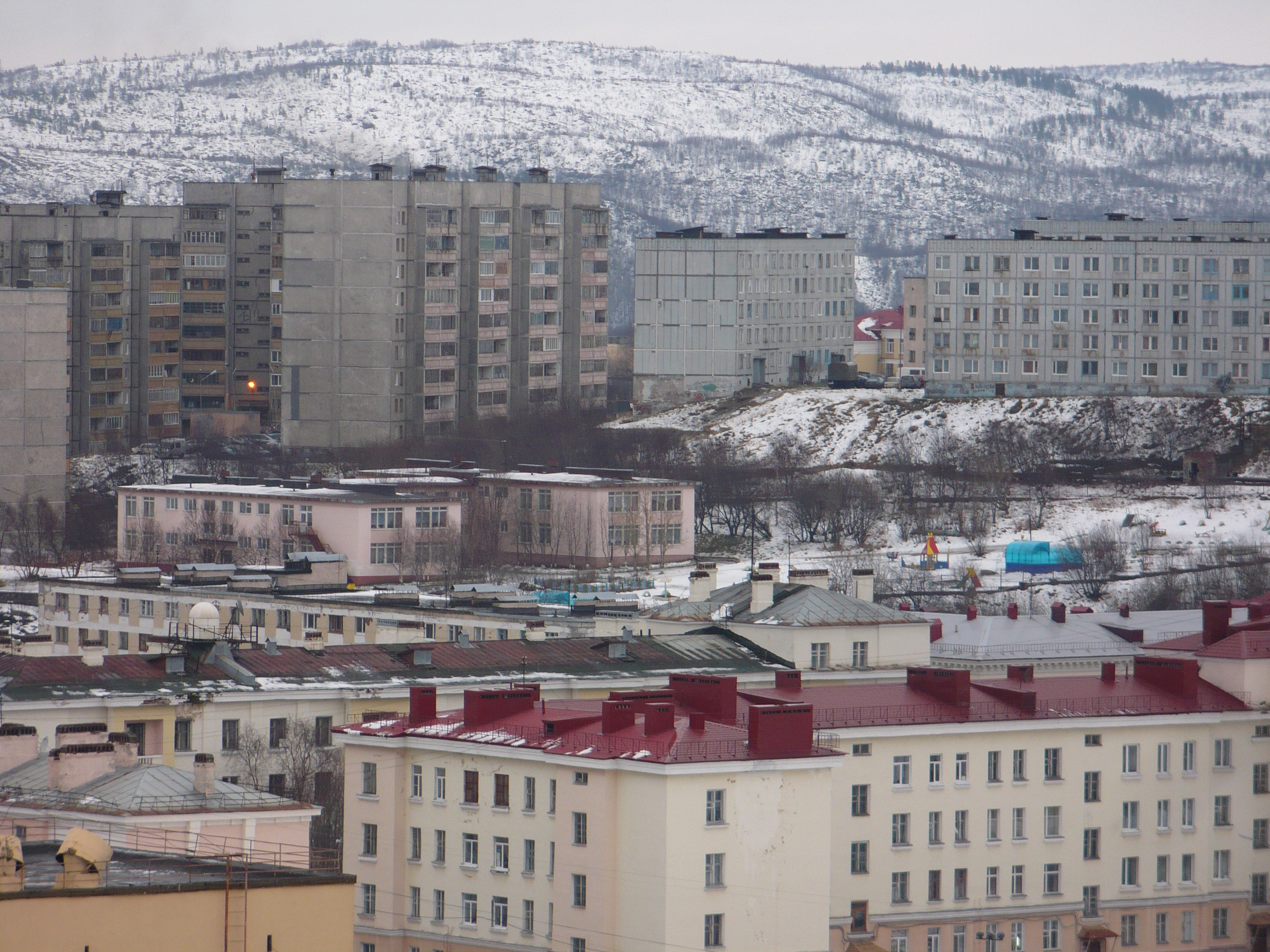 Housing system of streets of Borisa Safonova and Ivana Sivko in Severovorsk.